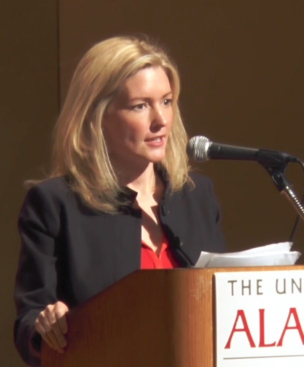 Kathryn Stockett. The bestselling author shares the story behind her novel, The Help. From a February 28, 2014, visit to The University of Alabama.